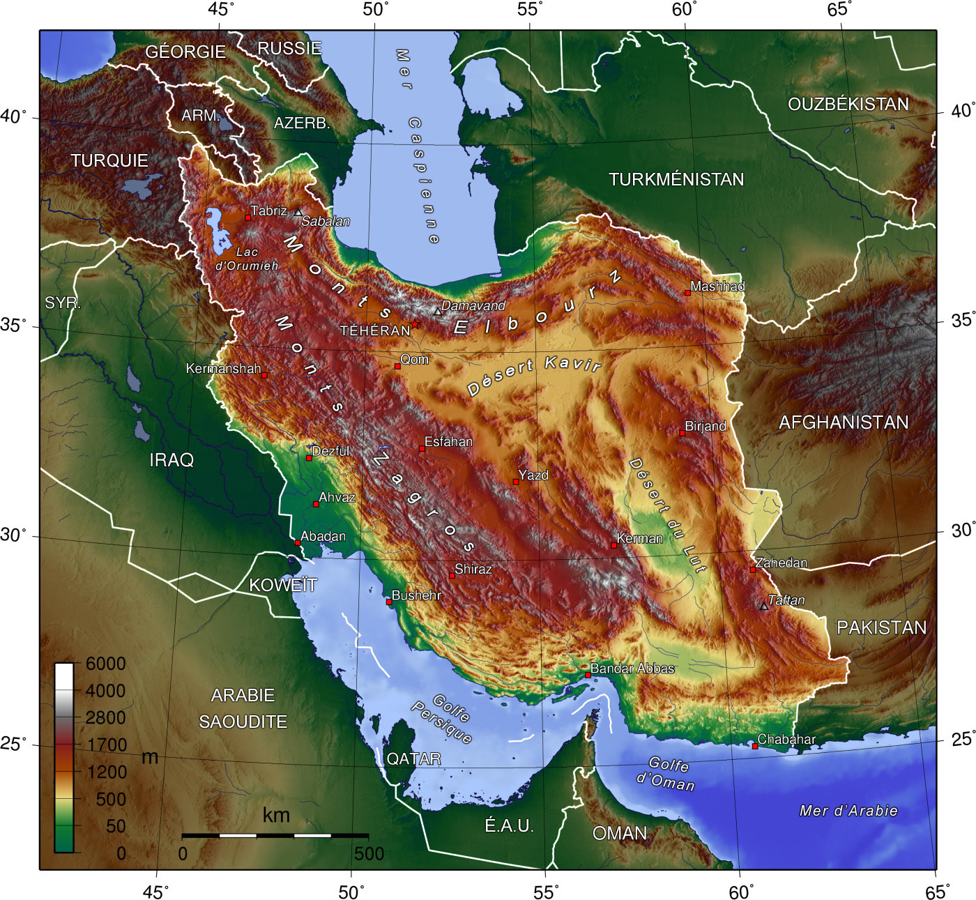 Topographic map in French of Iran